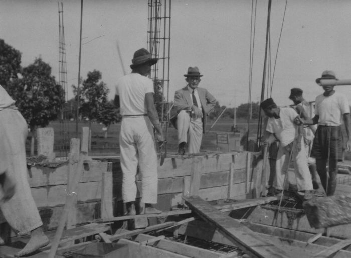 Bandung Technical University under construction